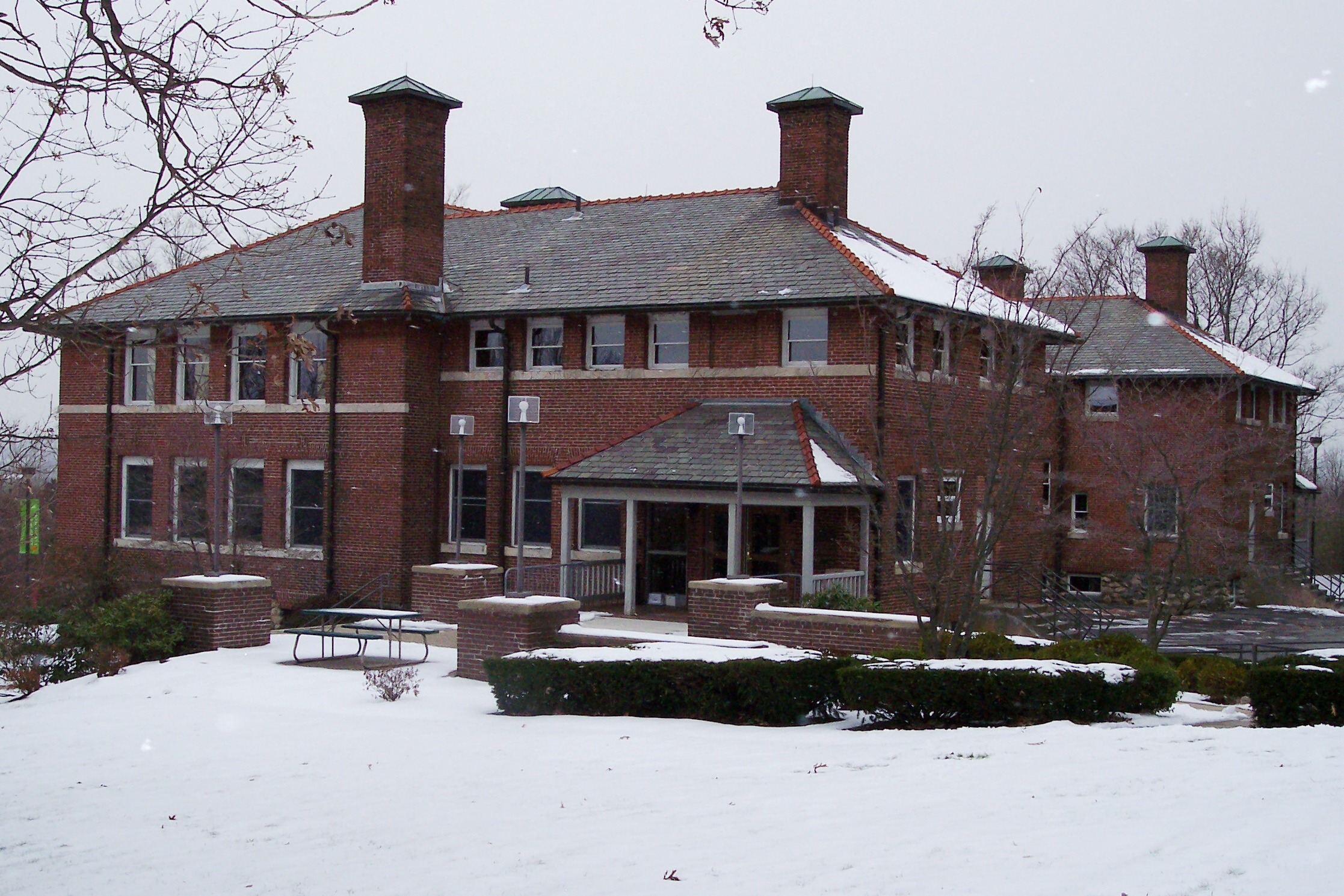 Photo taken by Author, Richard B. Johnson